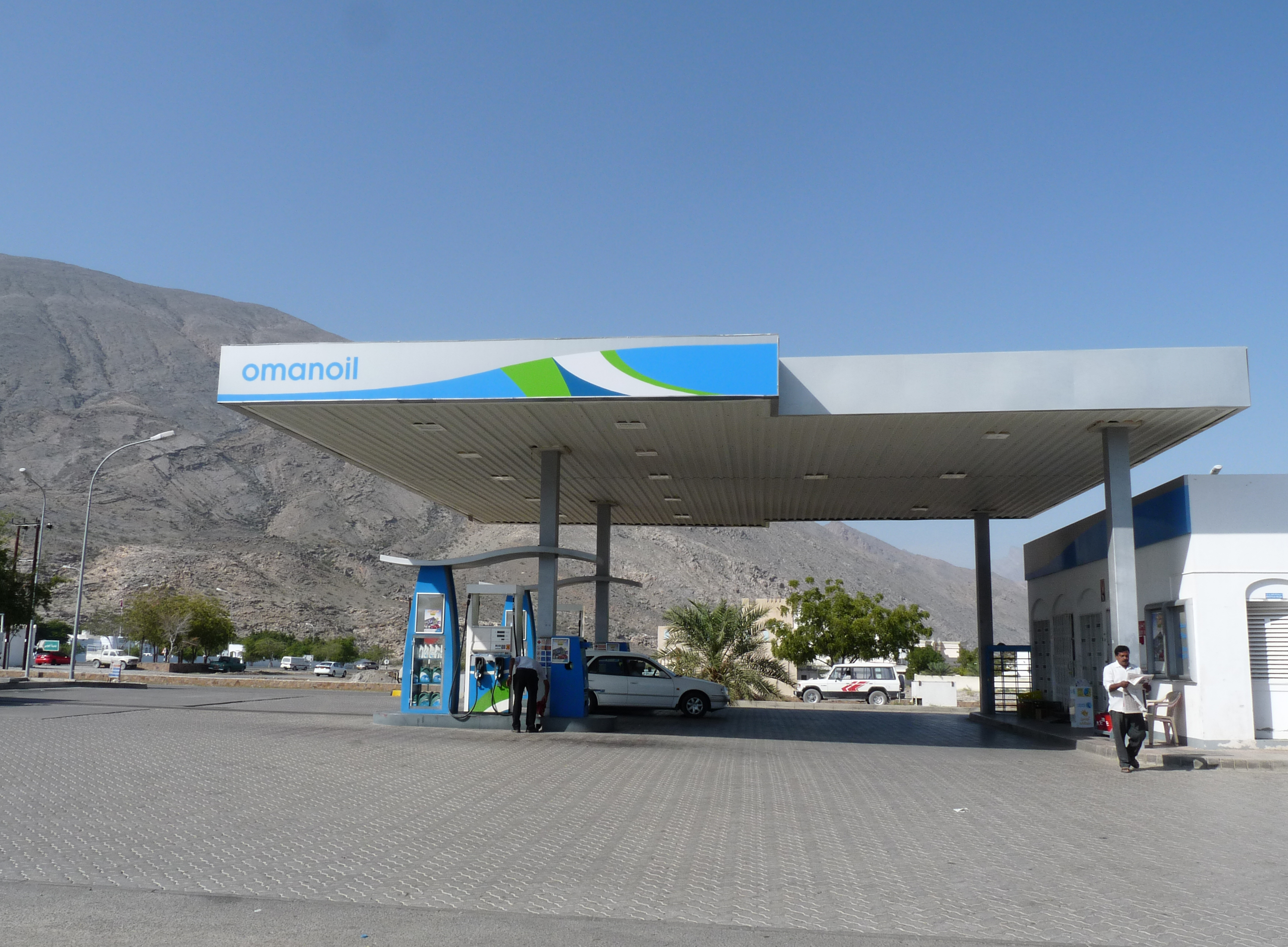 Petrol station in Northern Oman